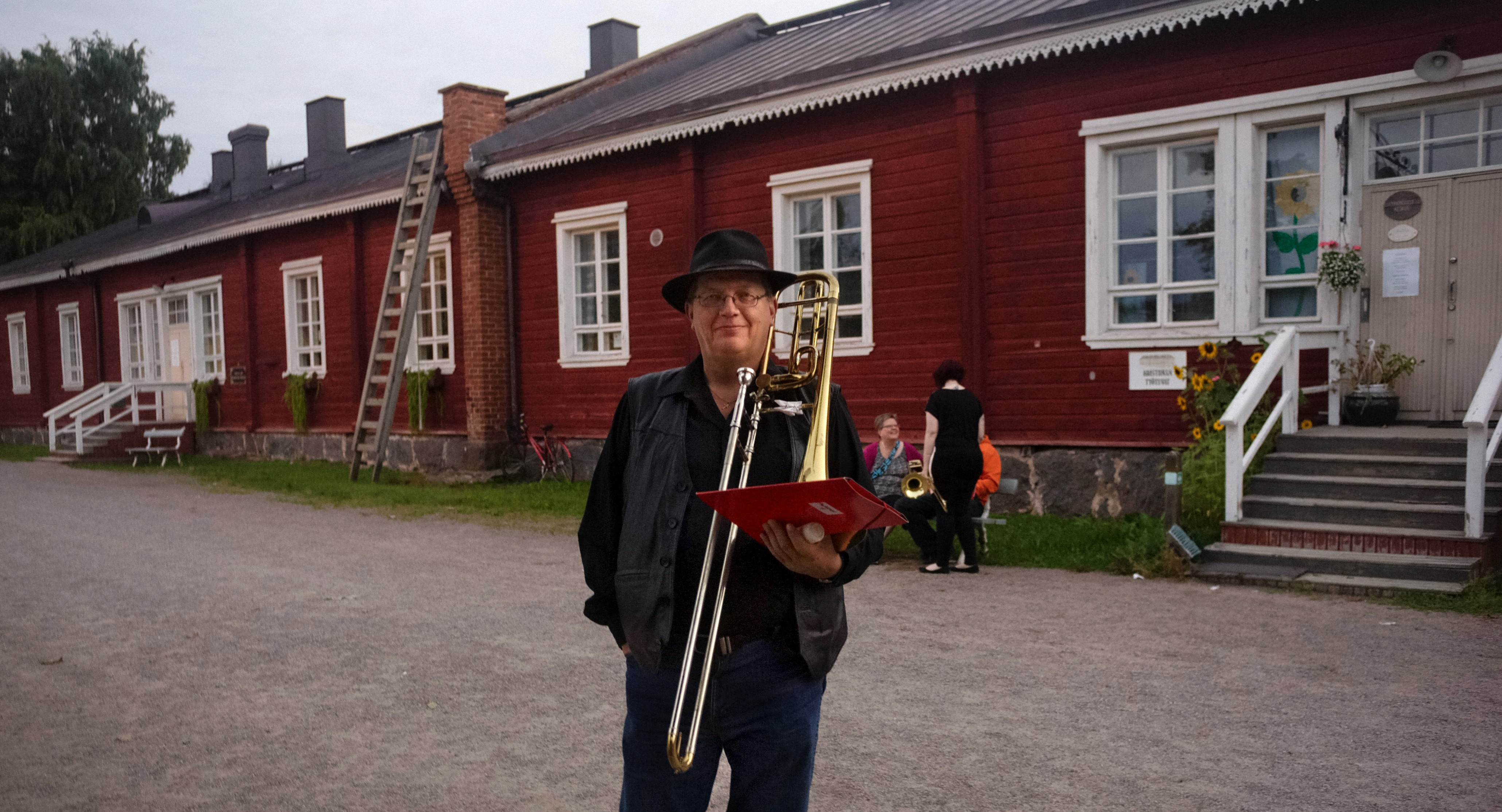 Bass Trombonist Petteri Saarnia in Lappeenranta, Finland